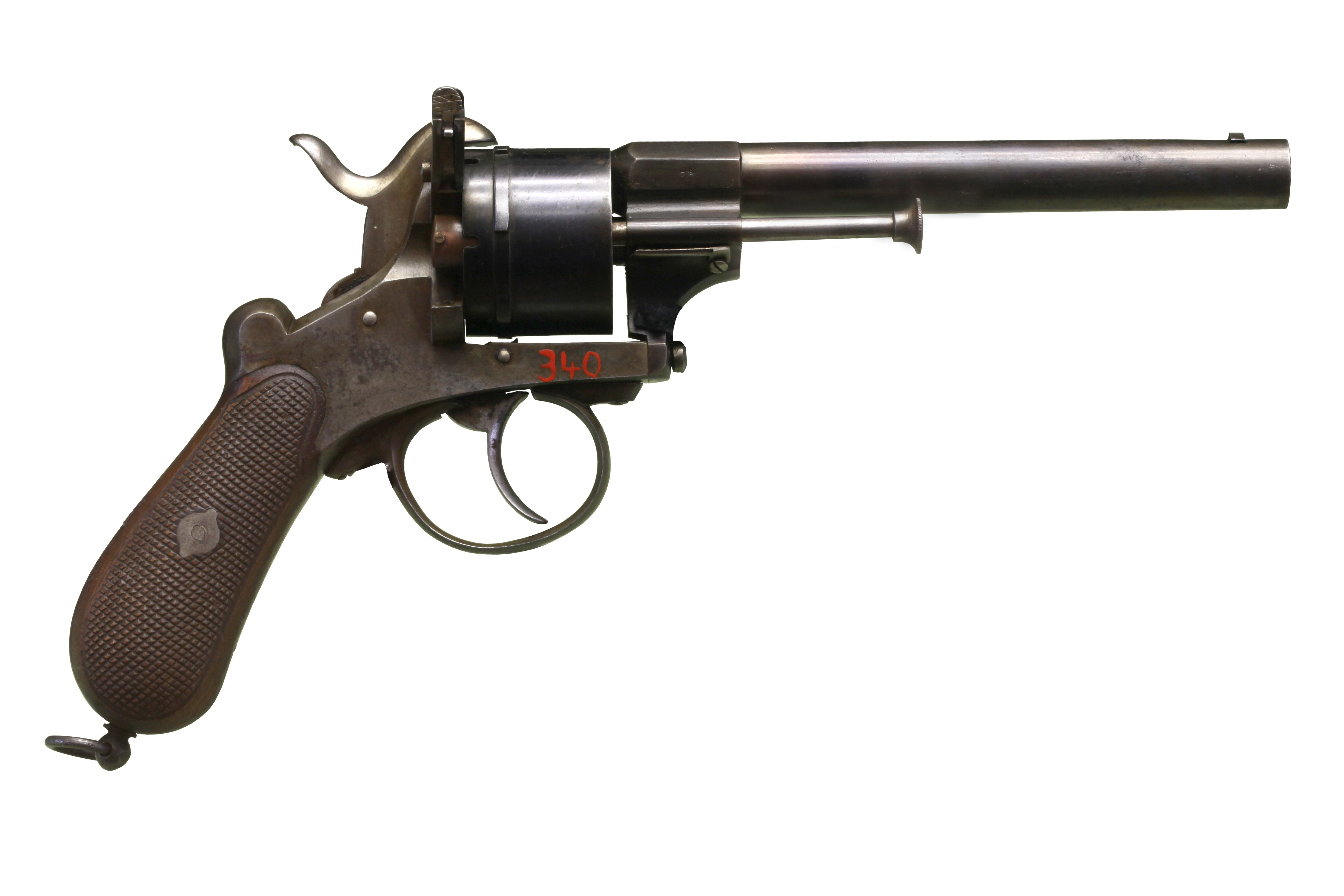 Lefaucheux M1858 revolver, double action, Lefaucheux system. Liège, Belgium, circa 1860-1865. On display at Morges military museum, accession number MMV 1004660.